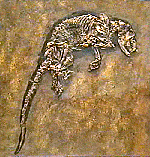 Buxolestes minor from Messel Pit Fossil Site at the Naturmuseum Senckenberg